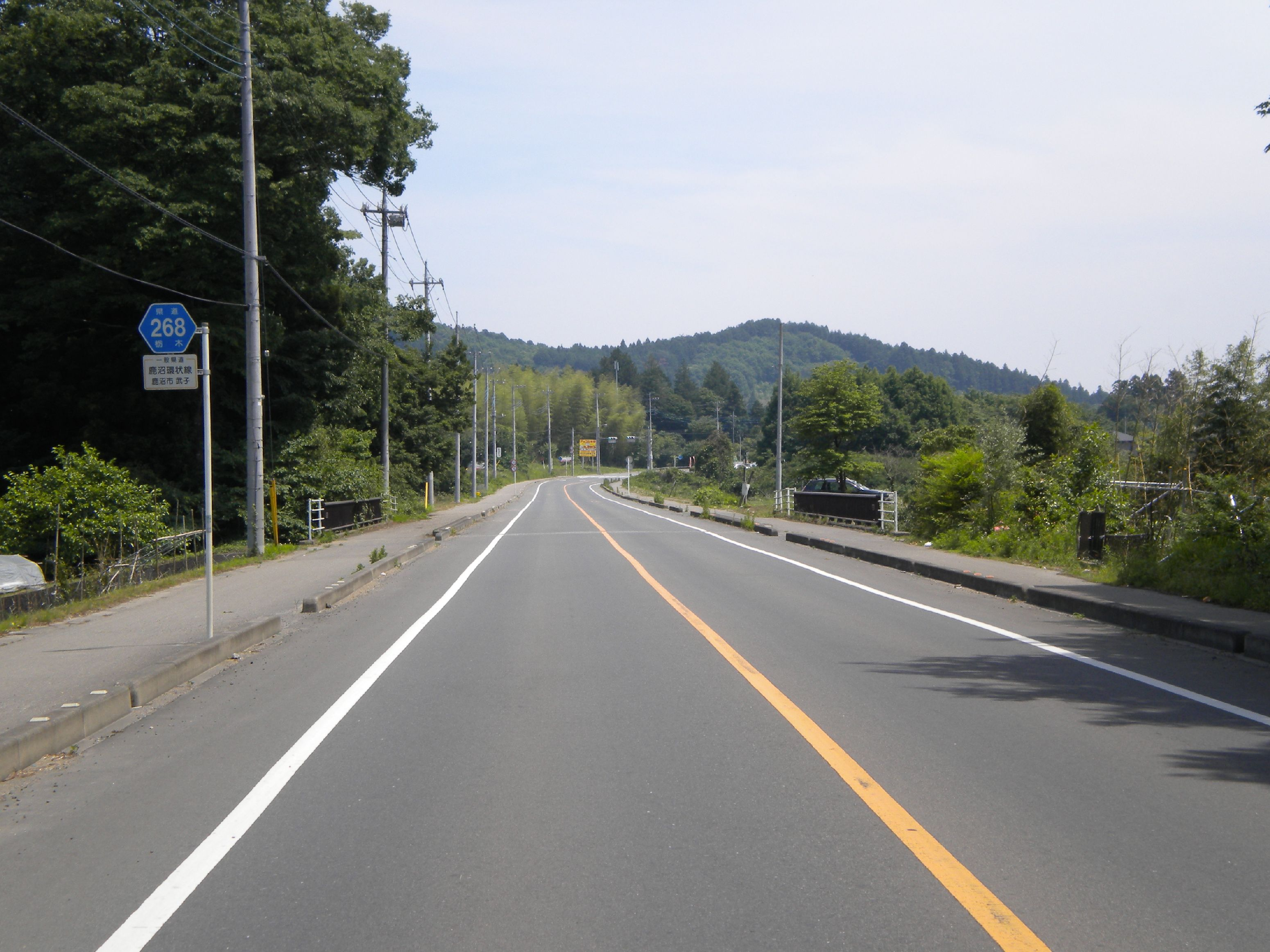 The Tochigi Prefectural Road Route 268 in Takeshi, Kanuma City